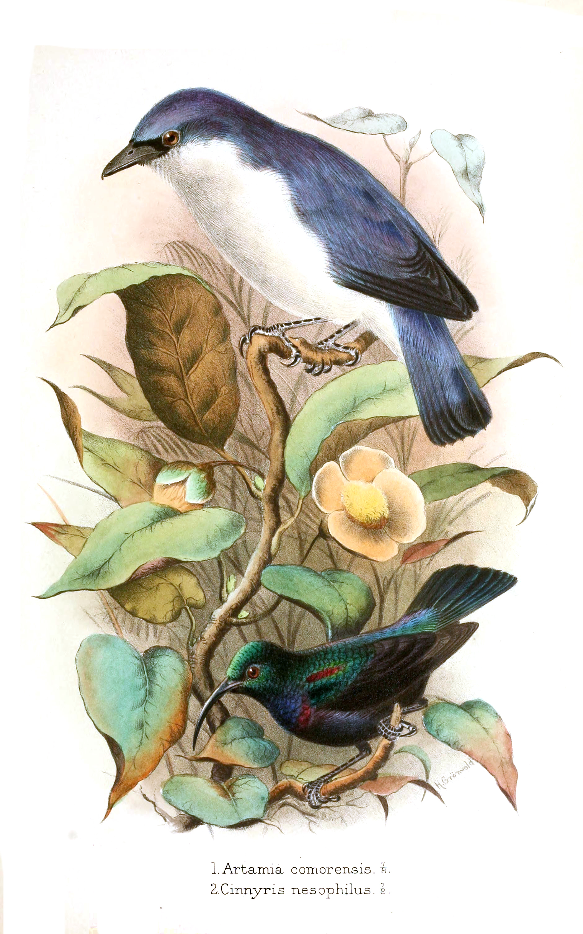 Artamia comorensis, Cinnyris nesophilus